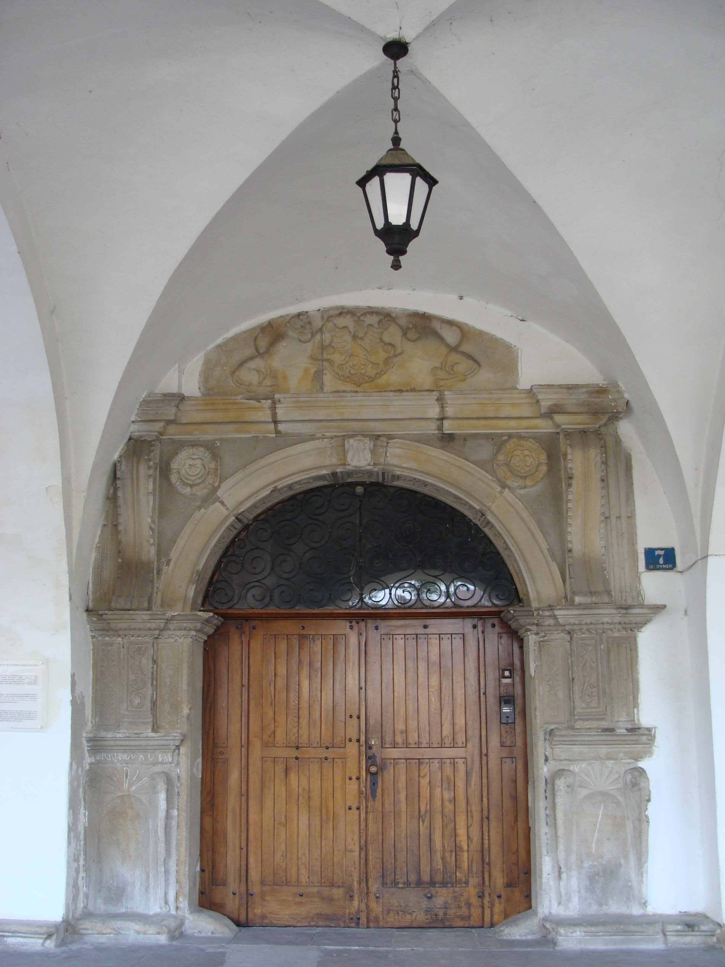 Stano's House in Krosno.